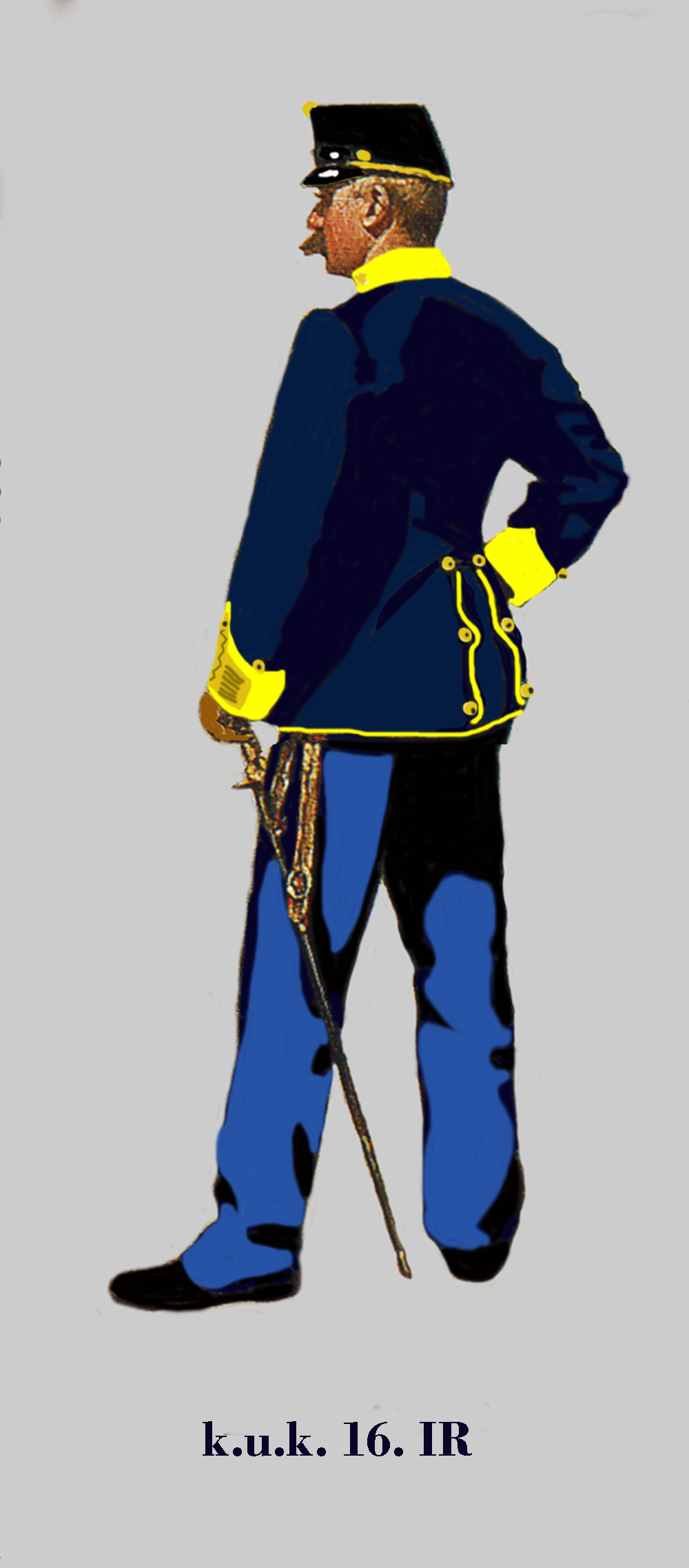 Lieutenant of the Austria-Hungarian (k.u.k.). 16th hungarian Infantry Regiment in Service dress